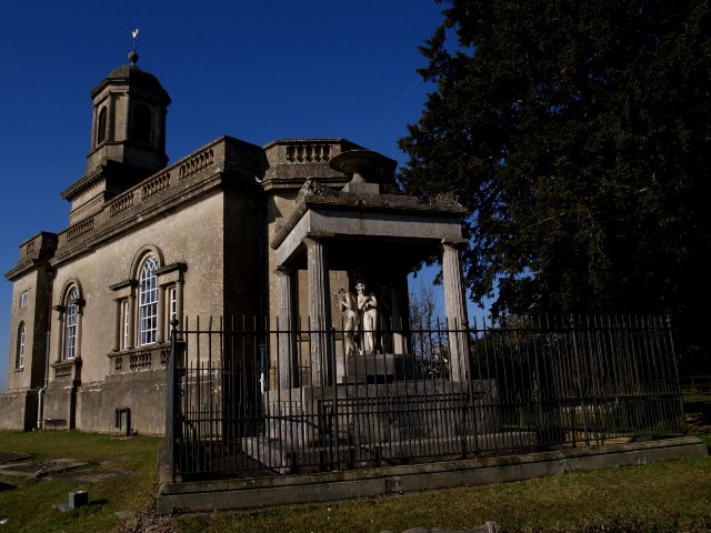 Tomb of 19th-century economist David Ricardo (foreground), next to St Nicholas' church, Hardenhuish, Wiltshire, seen from the east